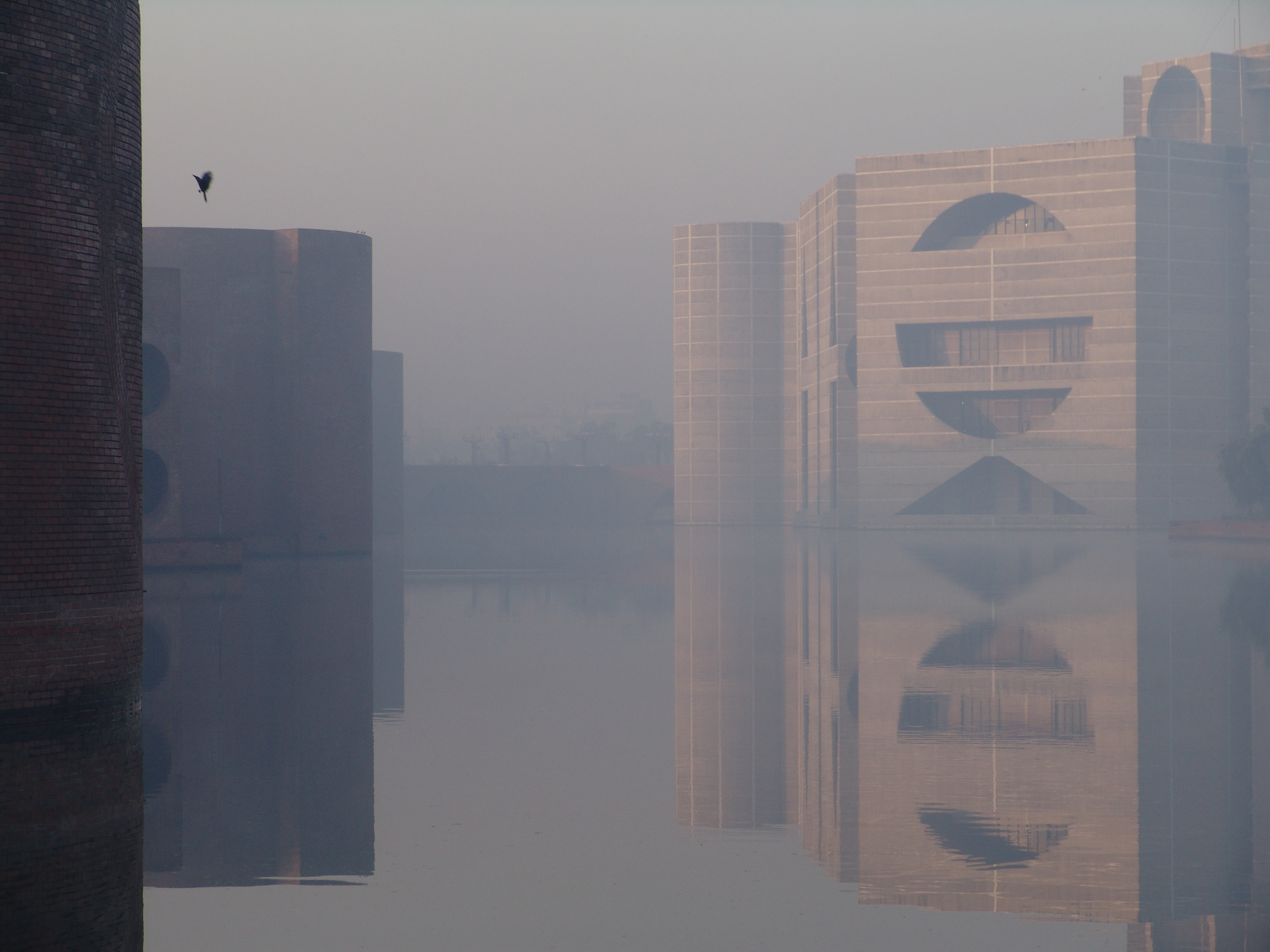 Jatiyo Sangsad Bhaban is the National Assembly of Bangladesh in the capital city Dhaka. This picture was taken during the sunrise of 01.12.2008.